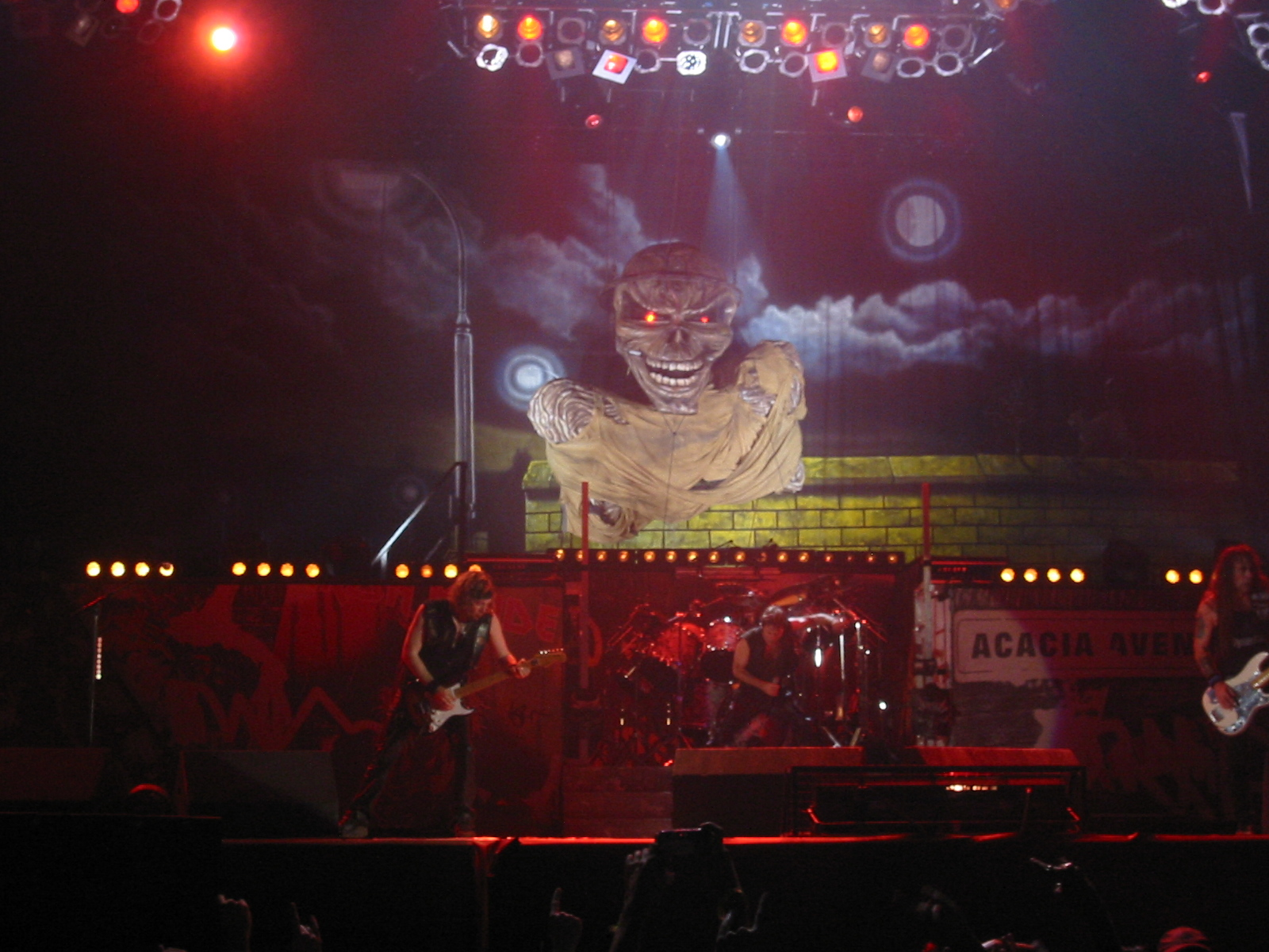 A typical Iron Maiden Stage from the French tour, live in Paris.